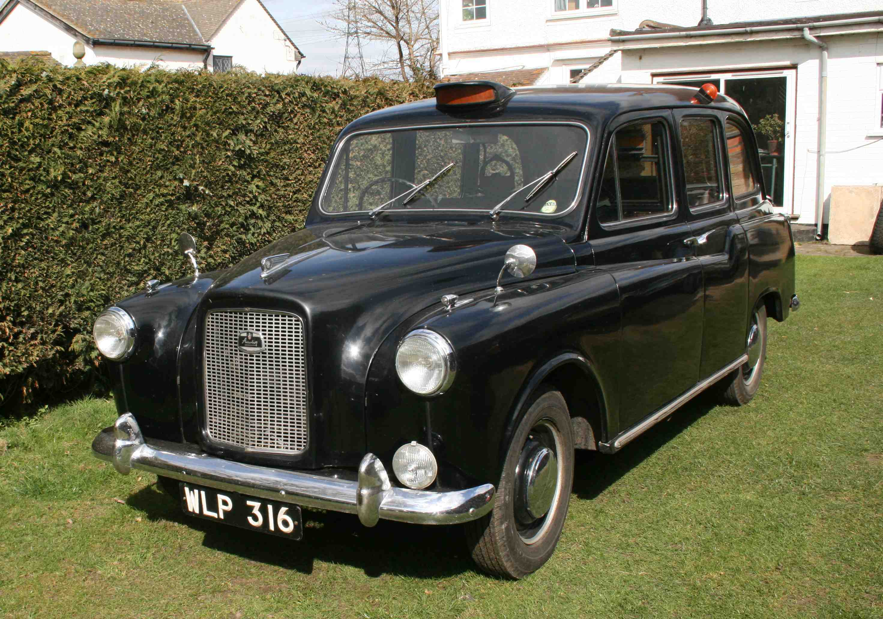 A preserved early example of the type